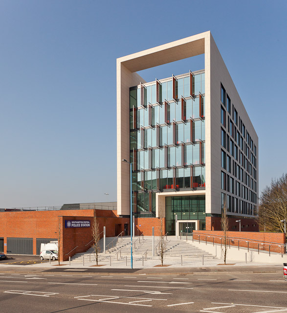 Southampton Central Police Station Newly completed and occupied.